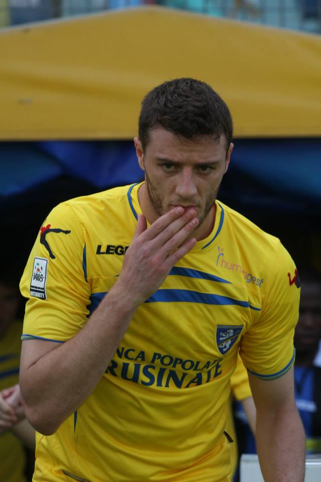 Daniel Ciofani, Frosinone football player.